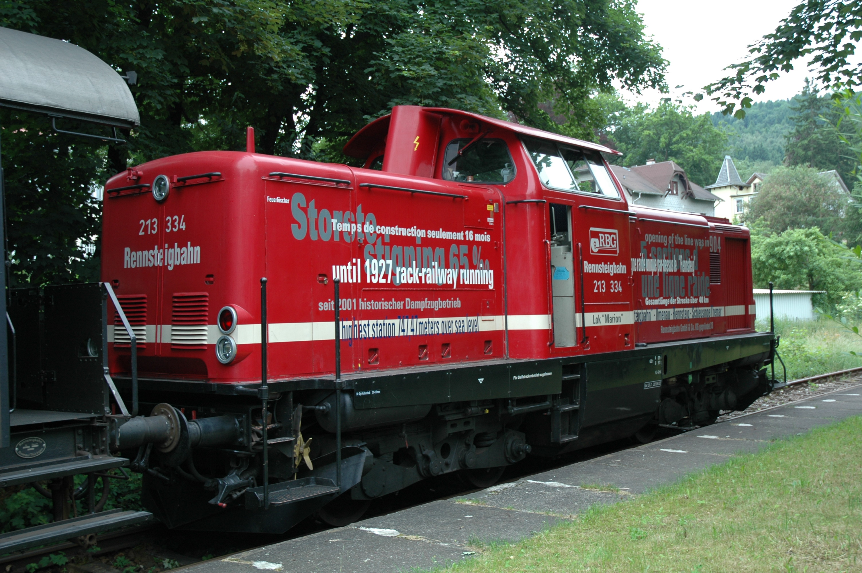 Train of thuringian "Rennsteigbahn" at the train station Ilmenau Bad, waiting for depature to "Gourmetfahrt"